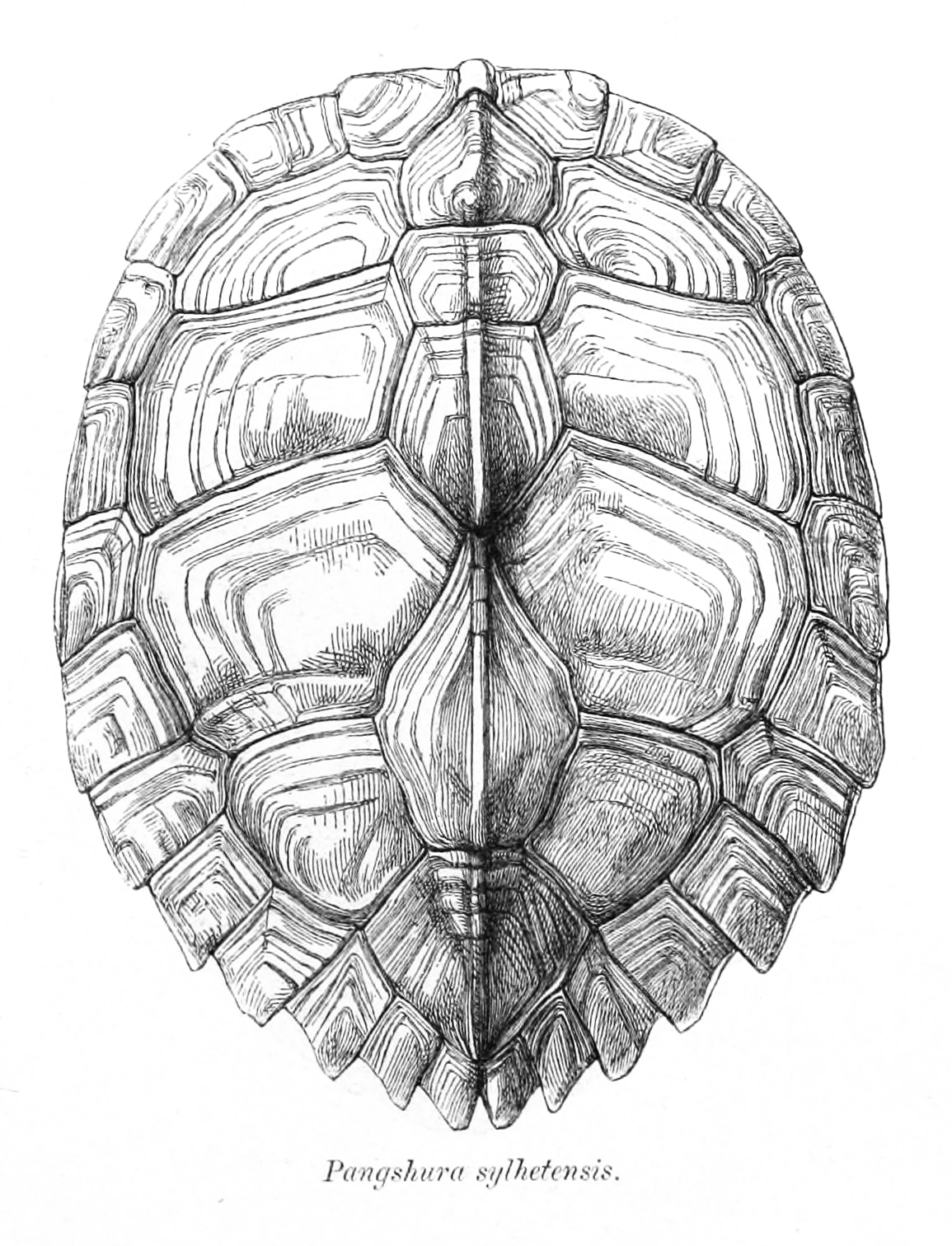 Assam Roofed Turtle, carapace from dorsal